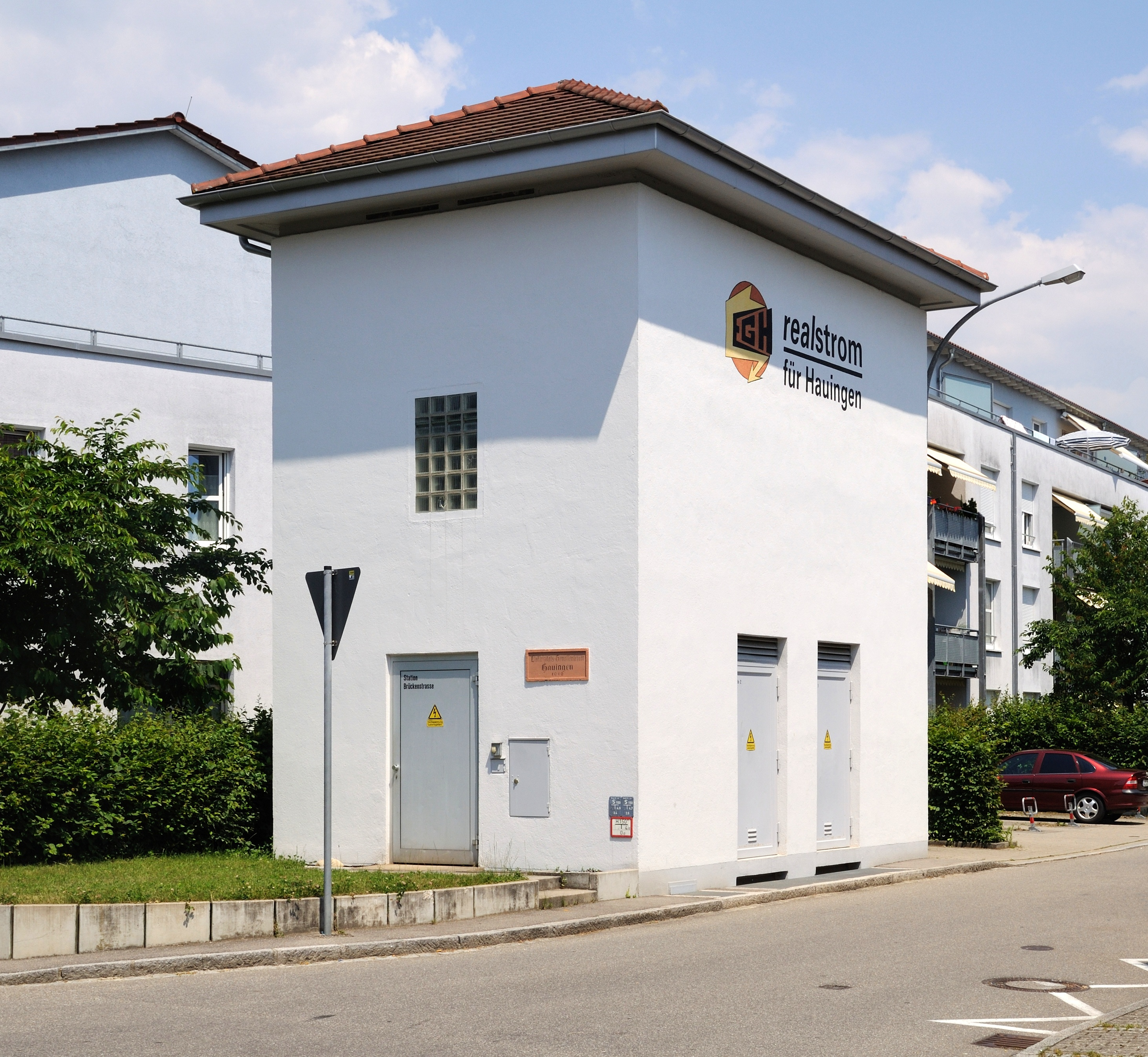 Hauingen: electrical substation of the electric utility cooperative of Hauingen